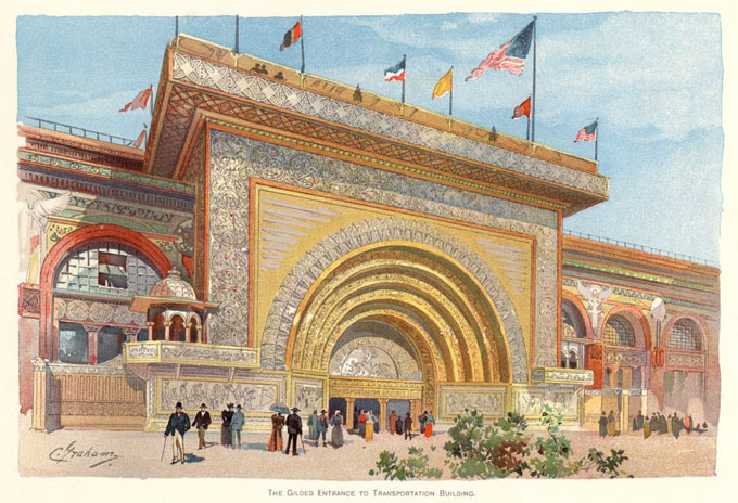 "The Gilded Entrance to the Transportation Building." Architect Louis Sullivan. Color plate by Charles S. Graham from The World's Fair in Water Colors. Size of original document approximately 8.8 x 11 inches. 1893. Digitial Identifier: GN90799d_WFWC_06w World's Columbian Exposition Collection at The Field Museum